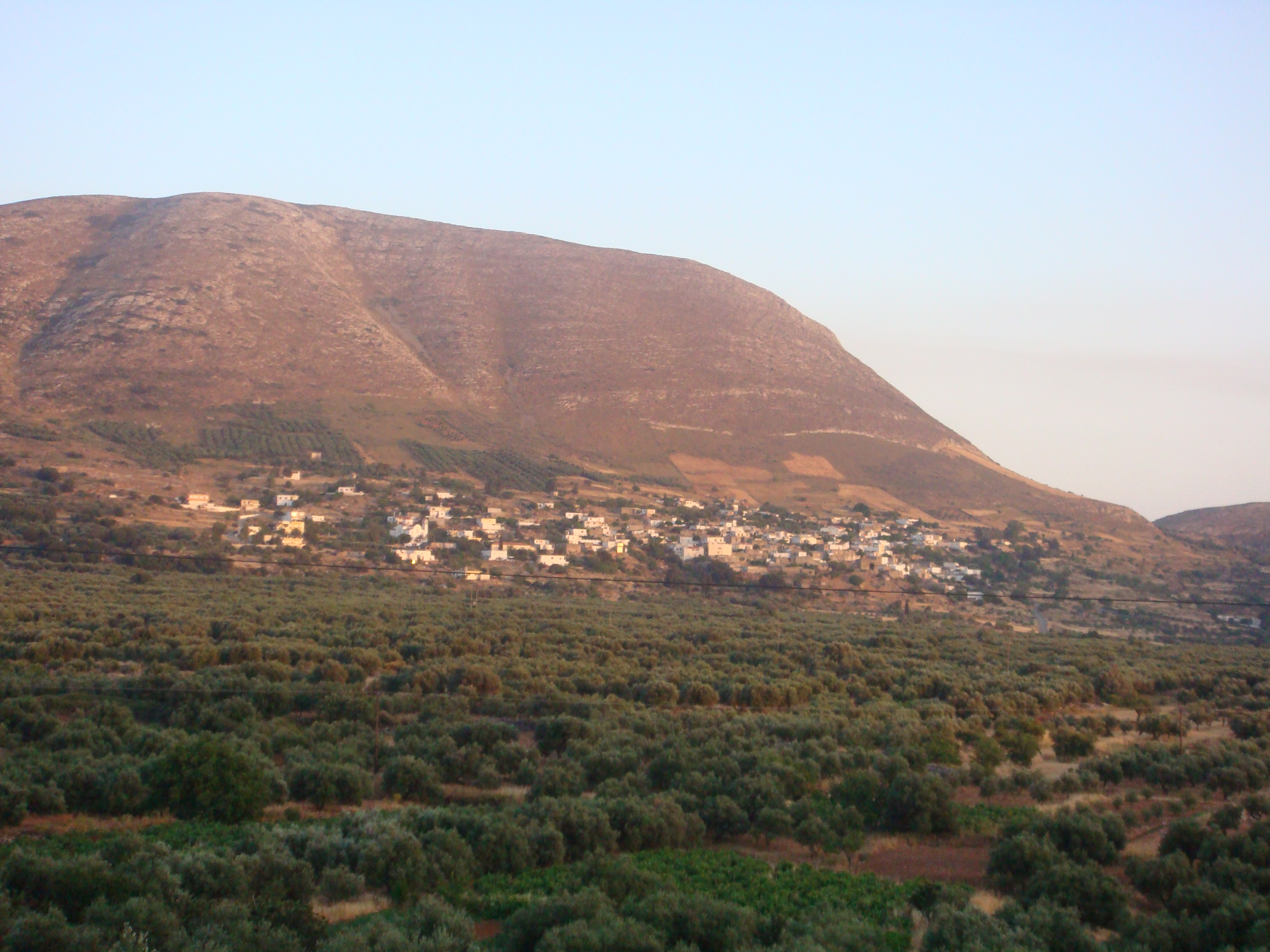 A view of Geraki, from Armaha, Iraklion Prefecture.